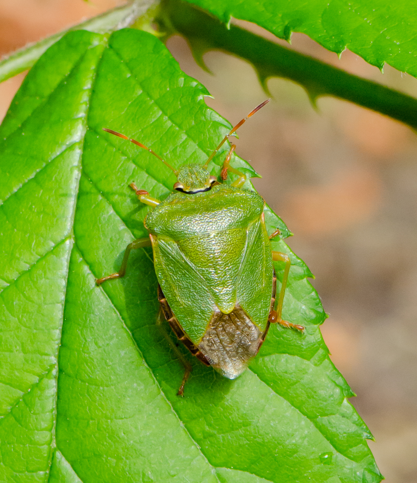 Green shield bug (Palomena prasina) , Hesse, Germany.